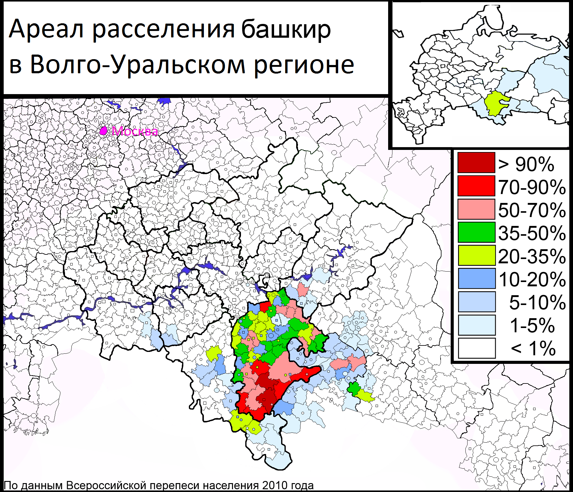 Area of settlement of Bashkirs in the Volga-Ural region. Russian Census 2010.